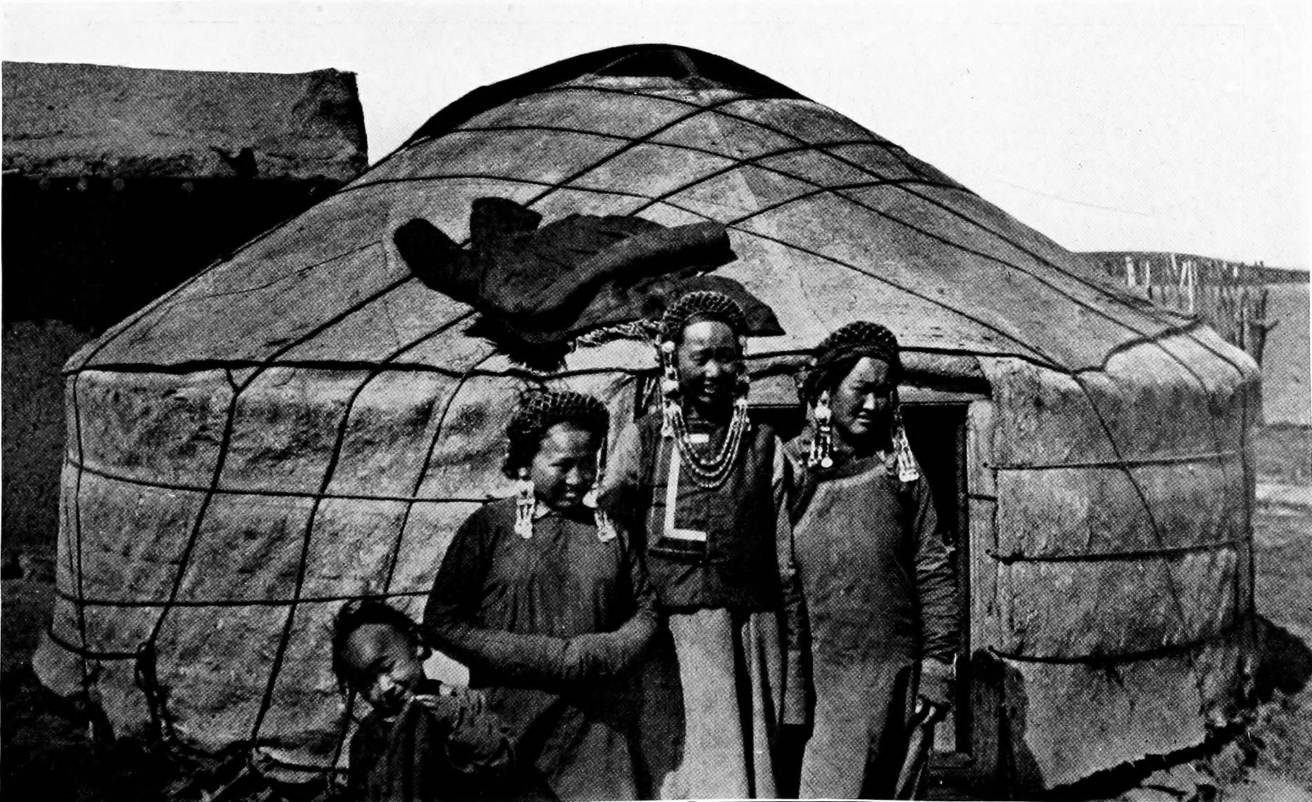 Photo from Across Mongolian Plains A Naturalist's Account of China's "Great Northwest"